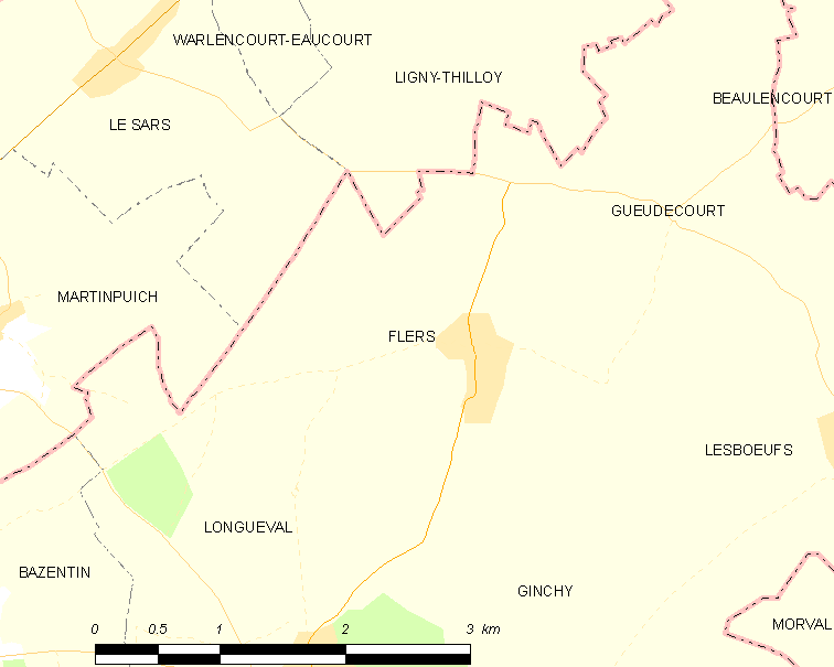 Map of French municipality Flers